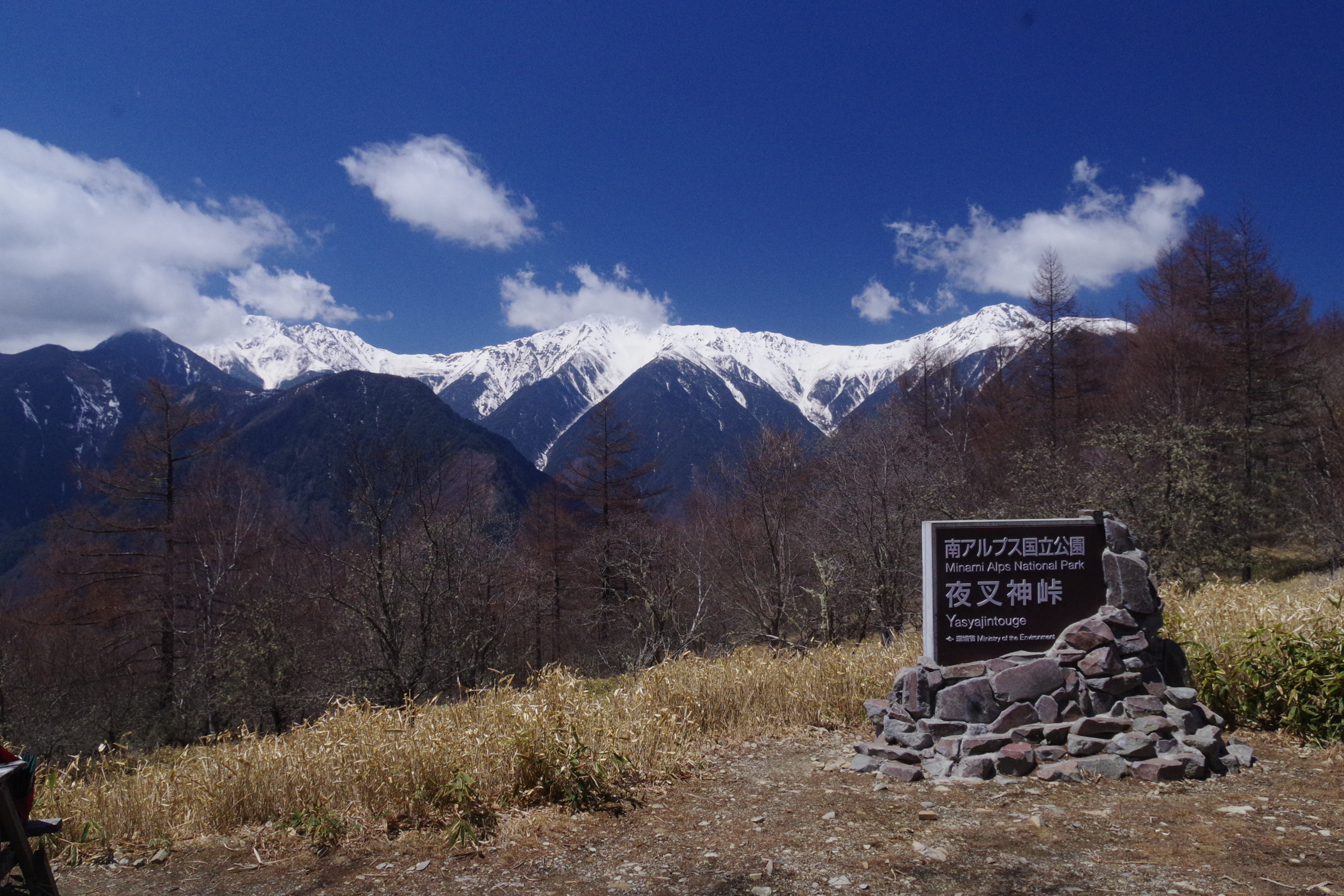 Mt.Shirane(Central Japan) from Yashajin-Toge Pass.